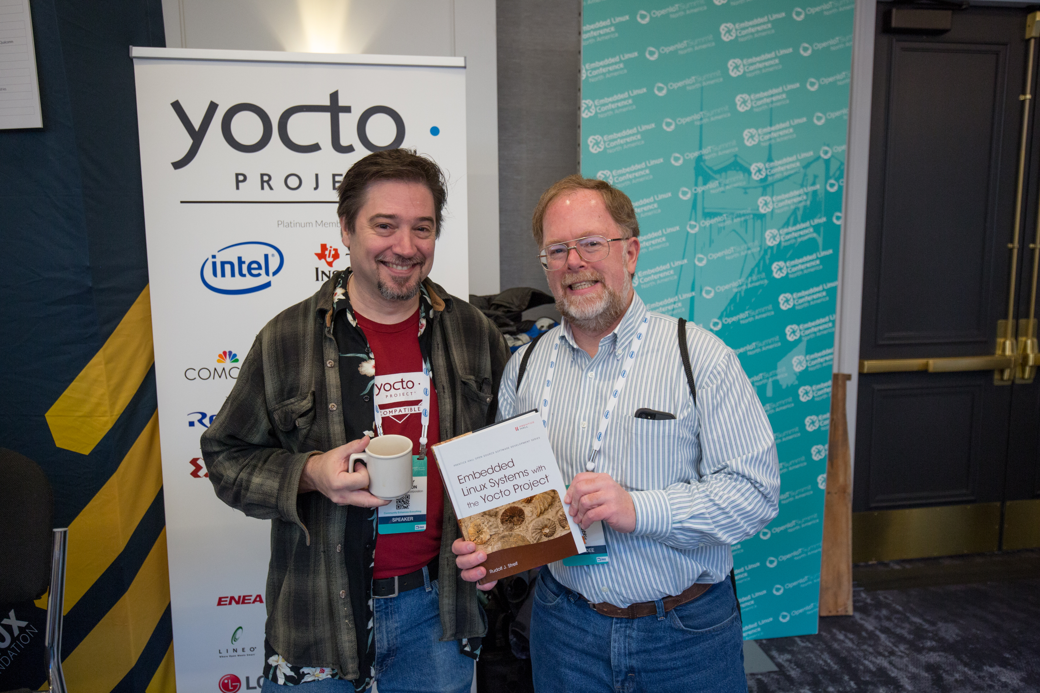 Embedded Linux Conference + OpenIoT Summit North America 2018